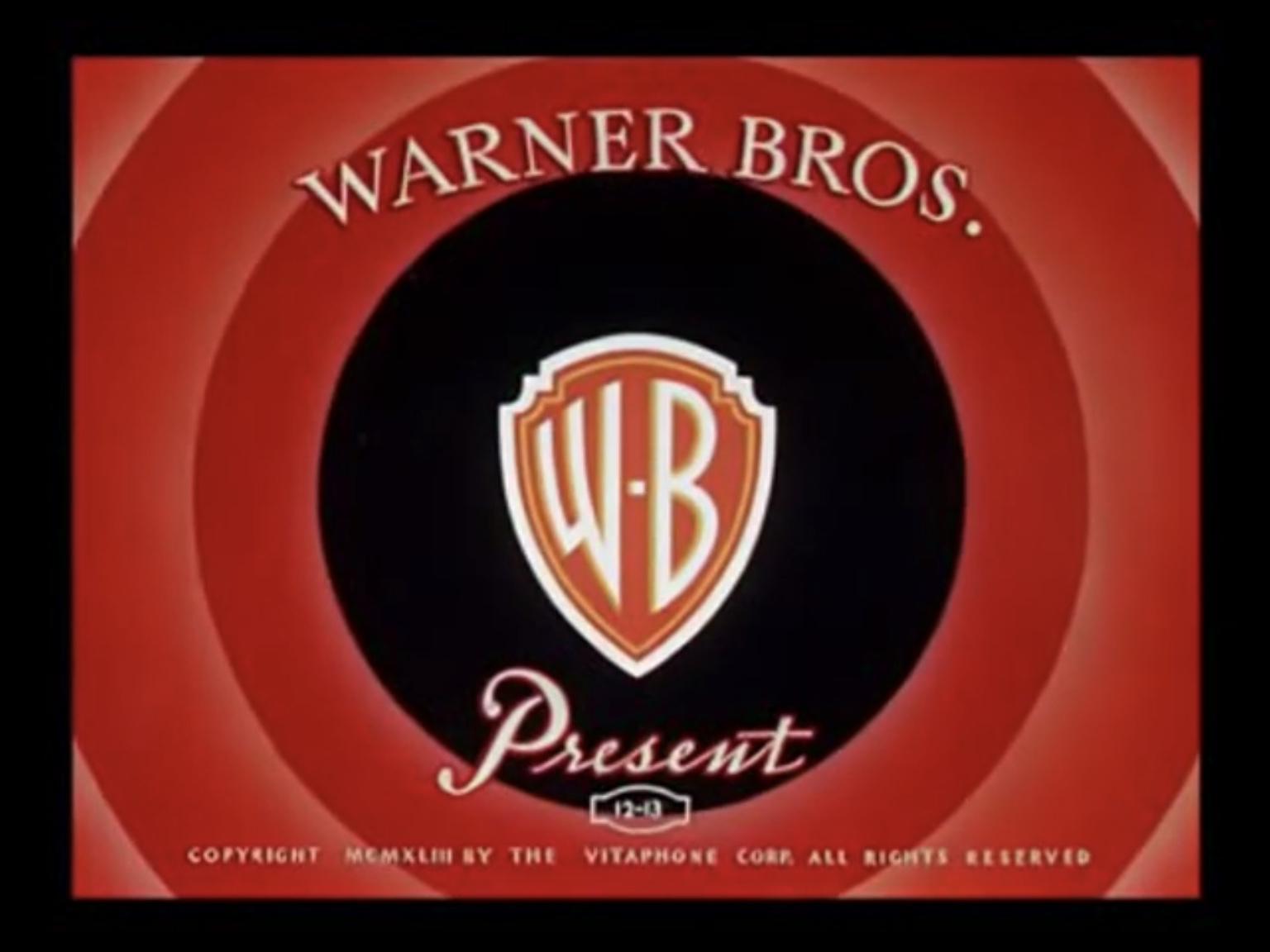 The "Warner Bros. Presents" title card from the first wave of color cartoons in the "Looney Tunes" series of cartoon shorts, from October 1942 until May 1947. Upon the 1944 sale of Leon Schlesinger Productions to Warner Brothers, "Pictures Inc." was added to the "Warner Bros." legend.